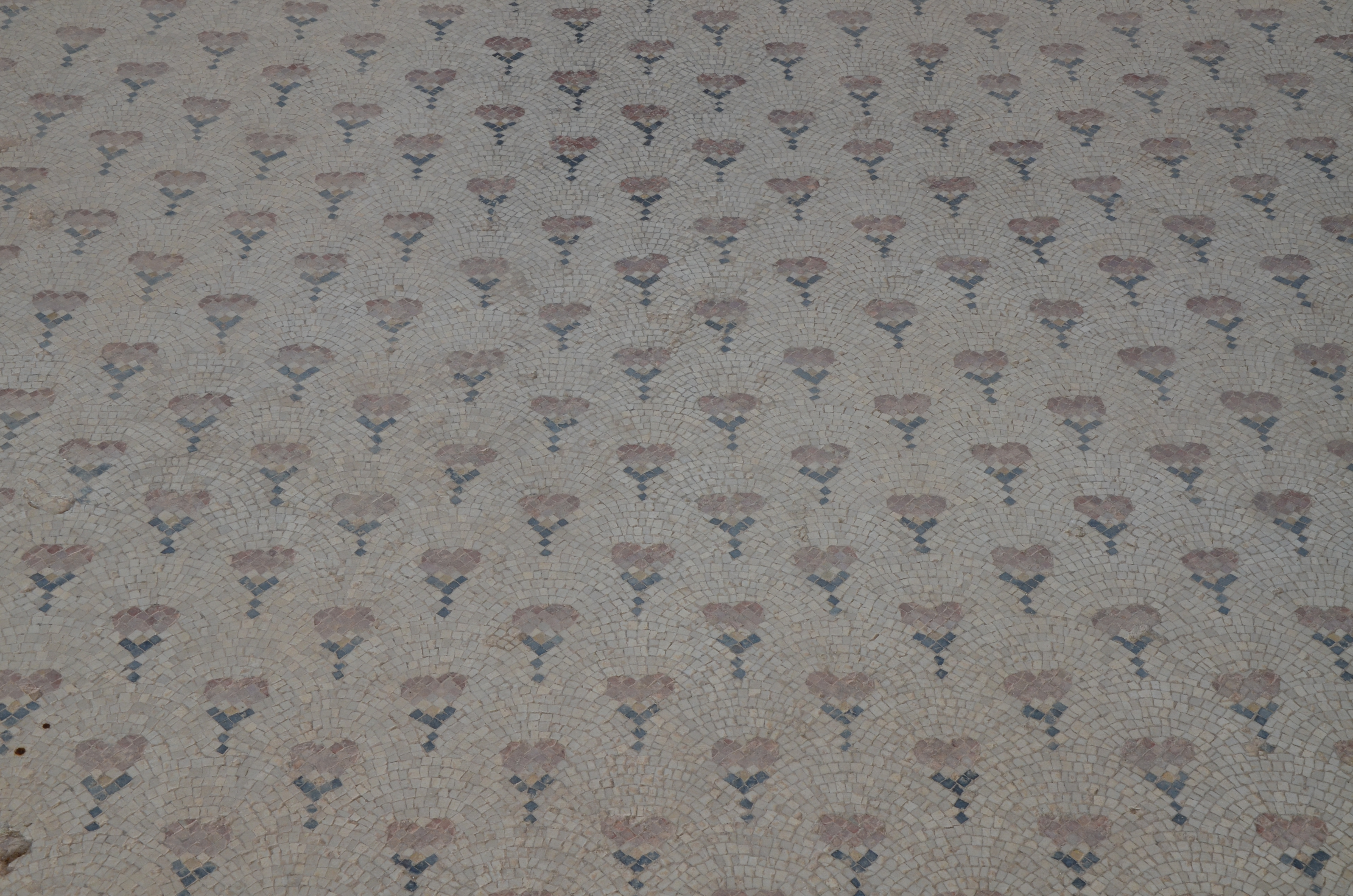 Sepphoris (Diocaesarea), Israel